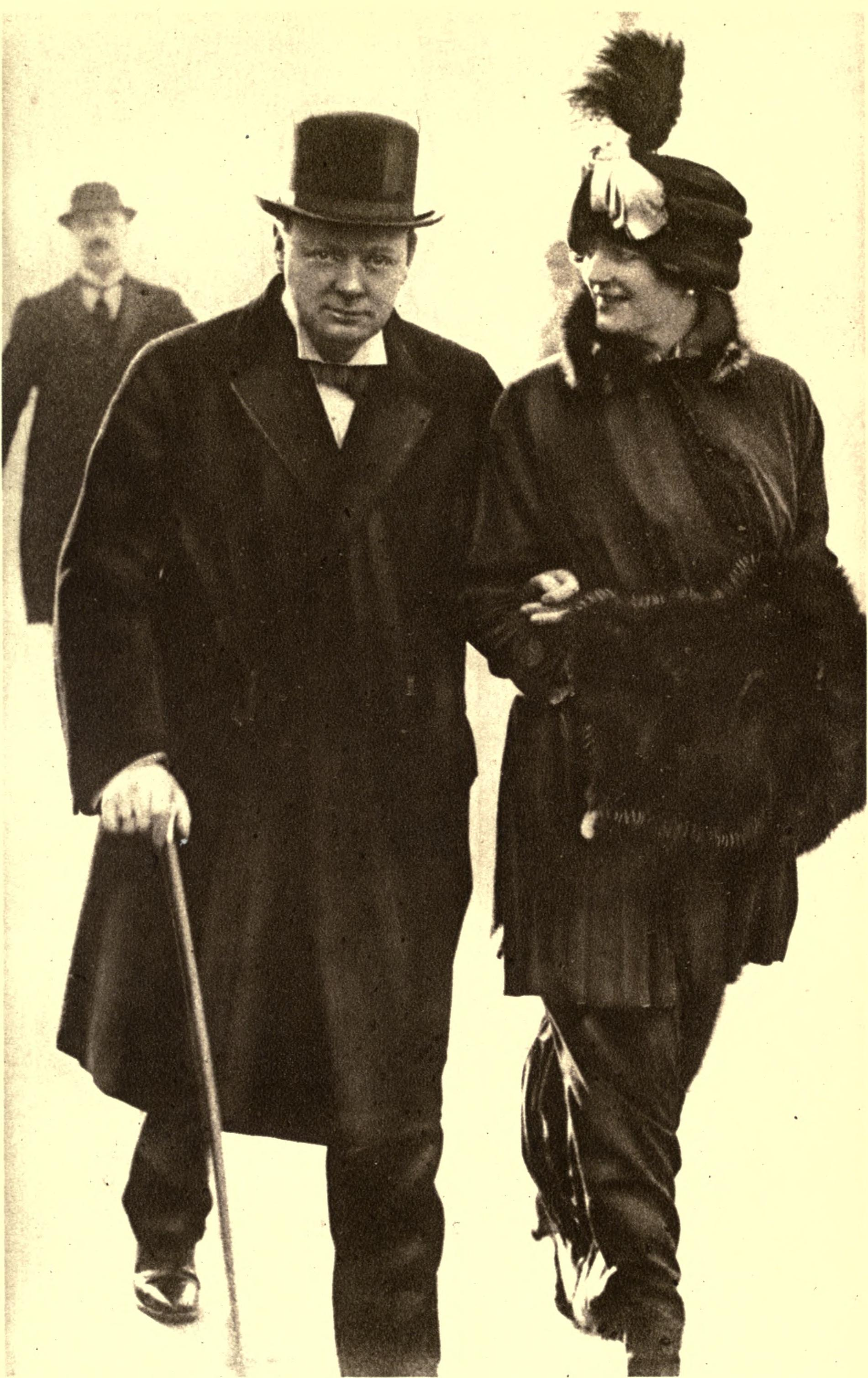 Mr. and Mrs. Winston Spencer Churchill.